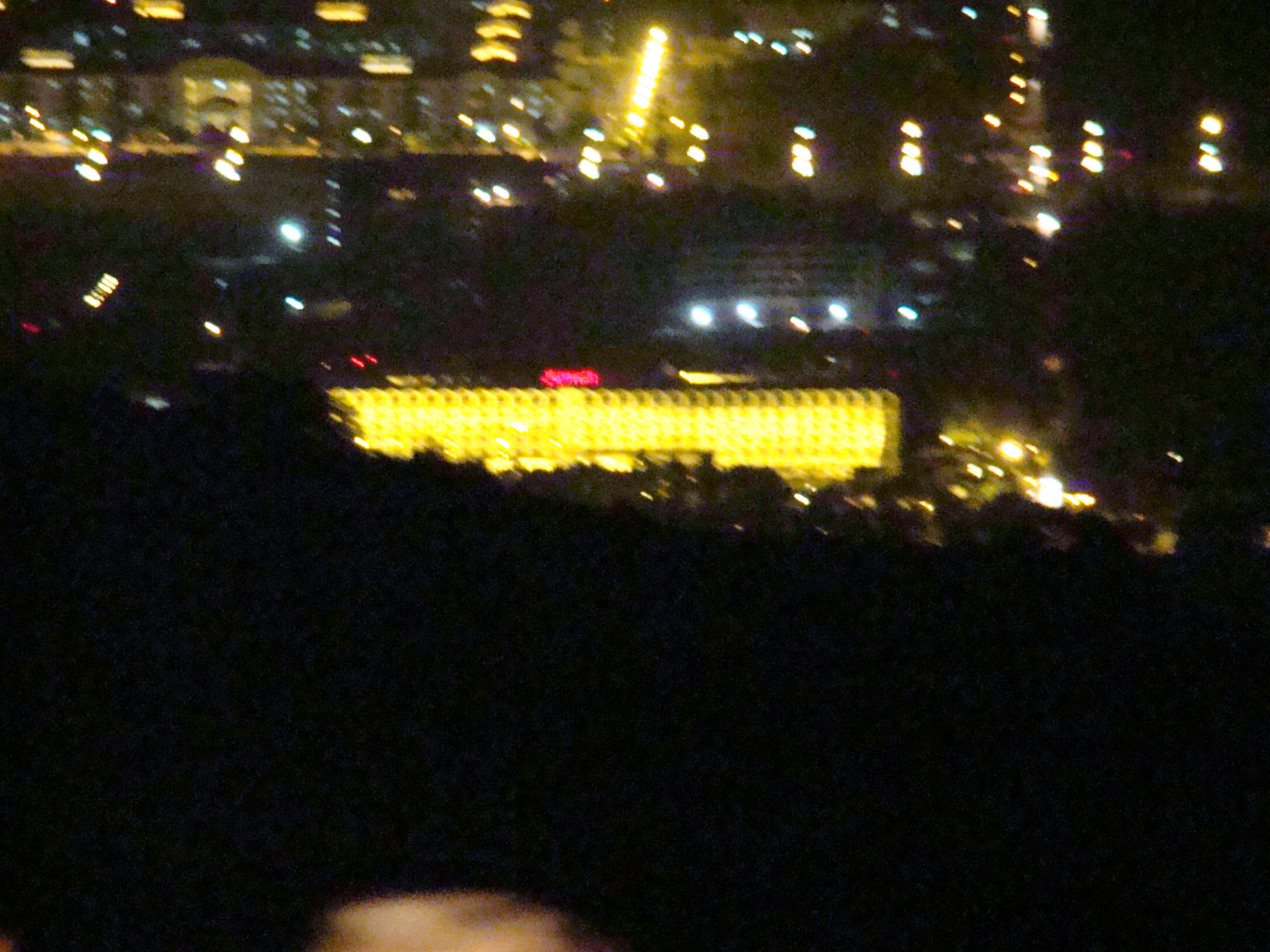 This picture was taken on September 19, 2008, a day before the Islamabad Marriott Hotel bombing.